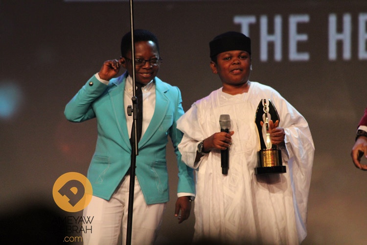 Aki and Paw Paw at the 2014 Africa Magic Viewers Choice Awards